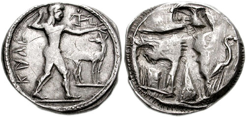 BRUTTIUM, Kaulonia. Circa 475-470 BC. AR Nomos (22mm, 7.91 g, 12h). KAVL (retrograde), Apollo, nude, walking right, holding laurel branch in upright right hand; small daimon running right on Apollo's extended left arm; to right, stag standing right, head reverted Incuse Apollo and stag, stag's antlers in relief; to right, heron in relief standing right; no ethnic or daimon. Overstruck on uncertain type. Noe, Caulonia, Group D, 60 (same dies); Gorini -; SNG ANS 162 (same obv. die); SNG Copenhagen -; HN Italy 2043; McClean 1594 (same dies).